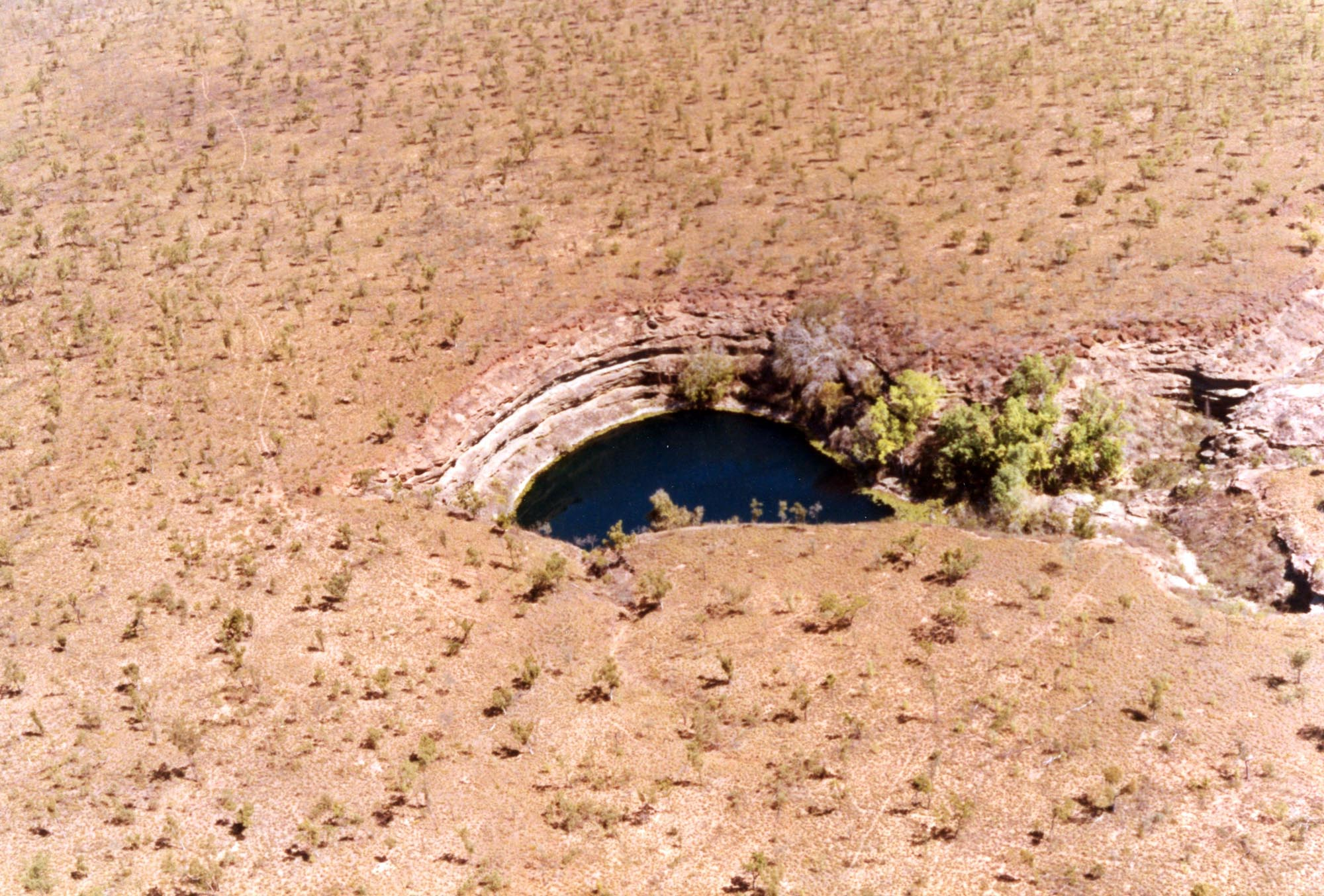 Numby Numby sinkhole